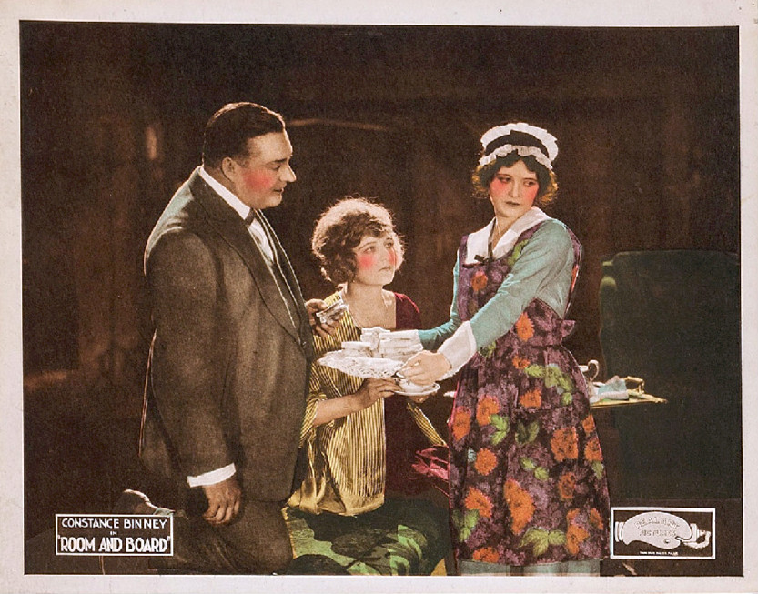 Lobby card from the 1921 film Room and Board.